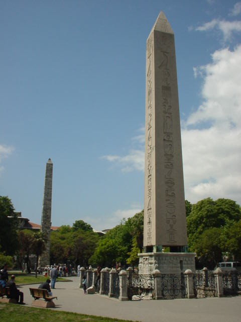 Site of the hippodrome in Istanbul.